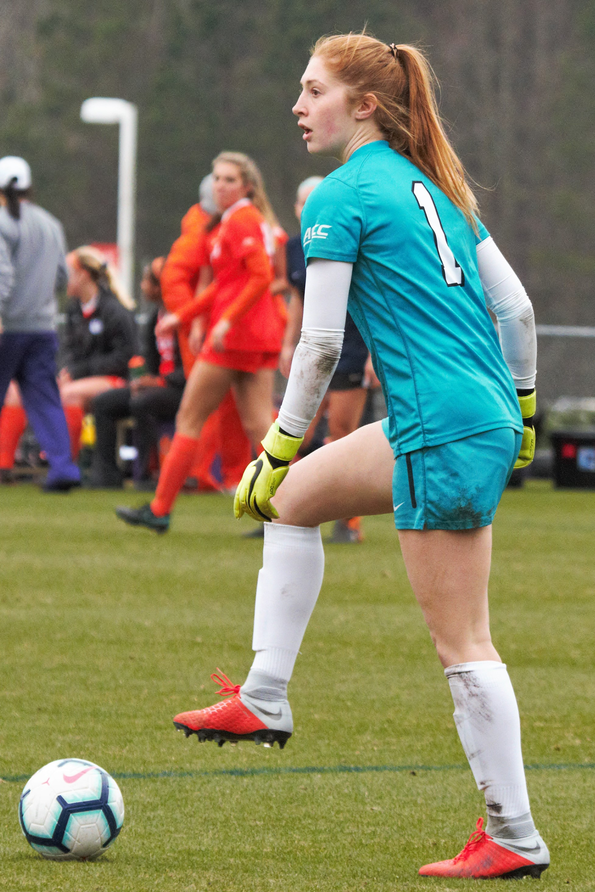 English goalkeeper Sandy MacIver playing for Clemson Tigers in a preseason match against the North Carolina Courage on March 9th, 2019 at WakeMed Soccer Park in Cary, North Carolina.